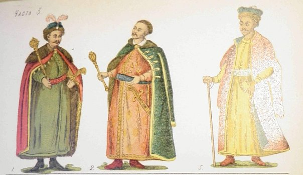 Ukrainian cossacks (Hetman, Polkovnyk) and Nobleman